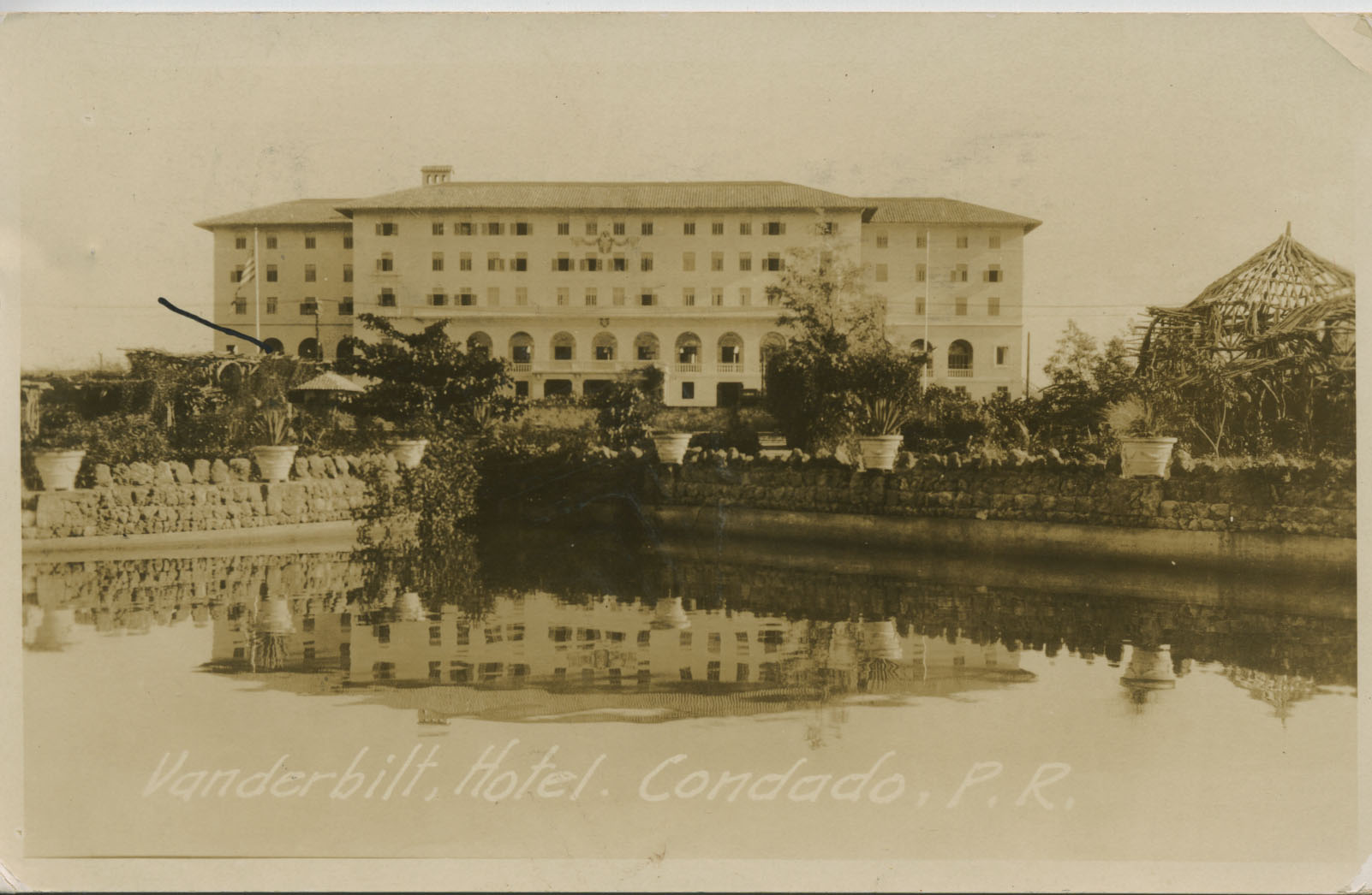 Attilio Moscioni, Real-photo postcard. Gleach/Santiago-Irizarry Collection